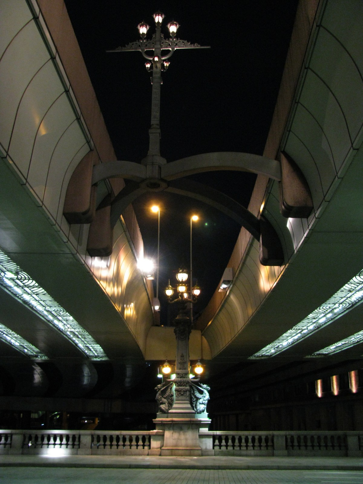 Central part in Nihonbashi.